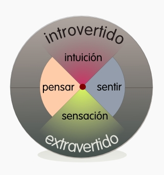 Example psychological types II